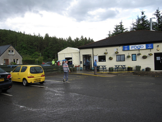 Real Food Cafe, Tyndrum Serving fish and chips and other good quality fast food.